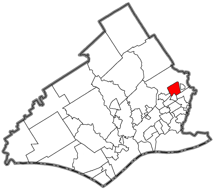 Showing the location within Delaware County, Pennsylvania.